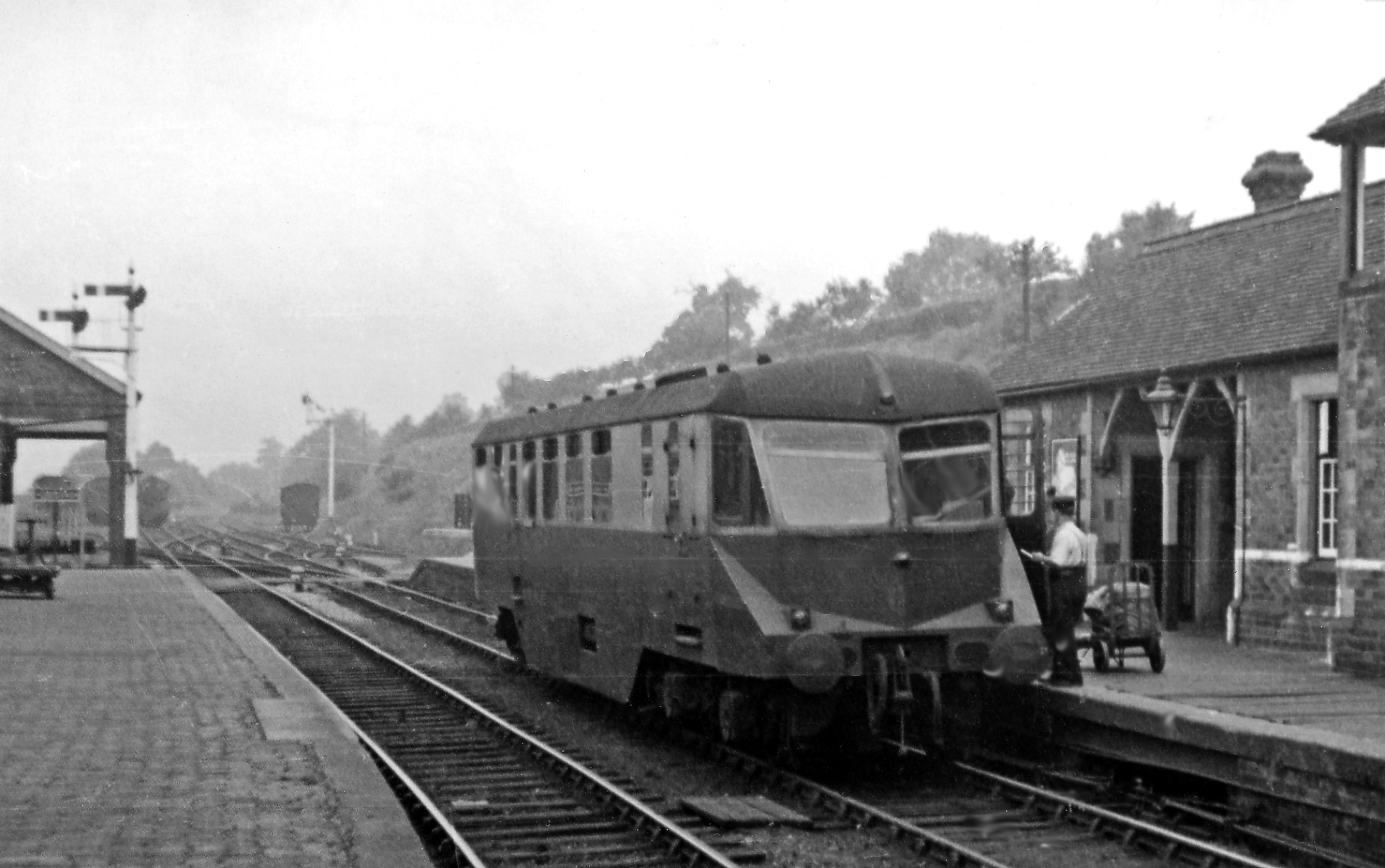 Tenbury Wells Station, with ex-Great Western Diesel railcar. View westward, towards Woofferton; ex-GWR Kidderminster - Woofferton line. No. 27 is one of the 1940 batch of Associated Equipment Co. (AEC) railcars first introduced in 1934: they proved very useful on the GWR for local services but were not to be perpetuated in Britain as railway passenger vehicles of general use for another 20 years.